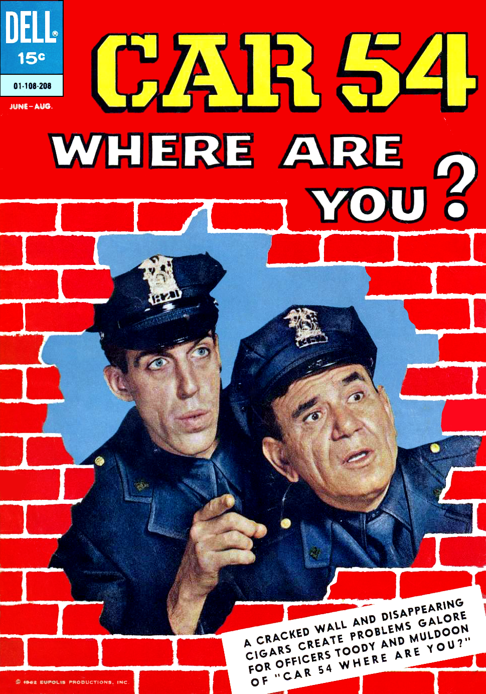 Fred Gwynne and Joe E. Ross on the cover of Car 54 Where Are You? number 2 (Dell Comics, June 1962).